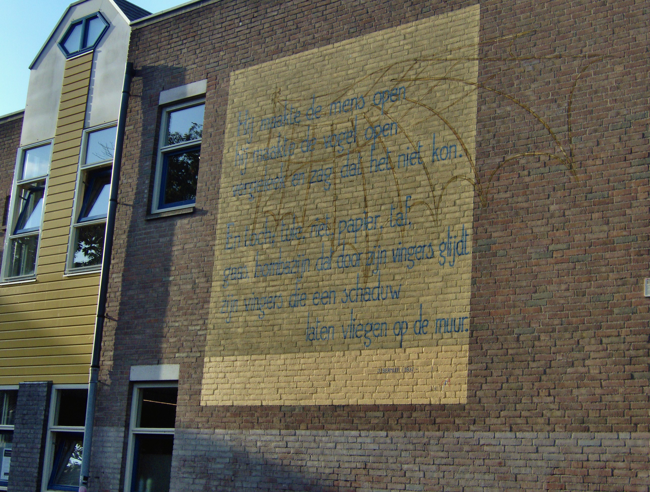 Second part of a poem by the Dutch poet J. Bernlef on a wall of the building at the Caeciliastraat in Leiden, The Netherlands